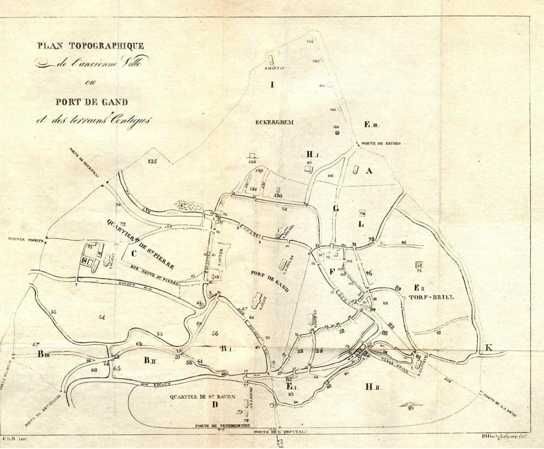 Ghent by Charles-Louis Diericx and J.P.Goetghebuer, 1808